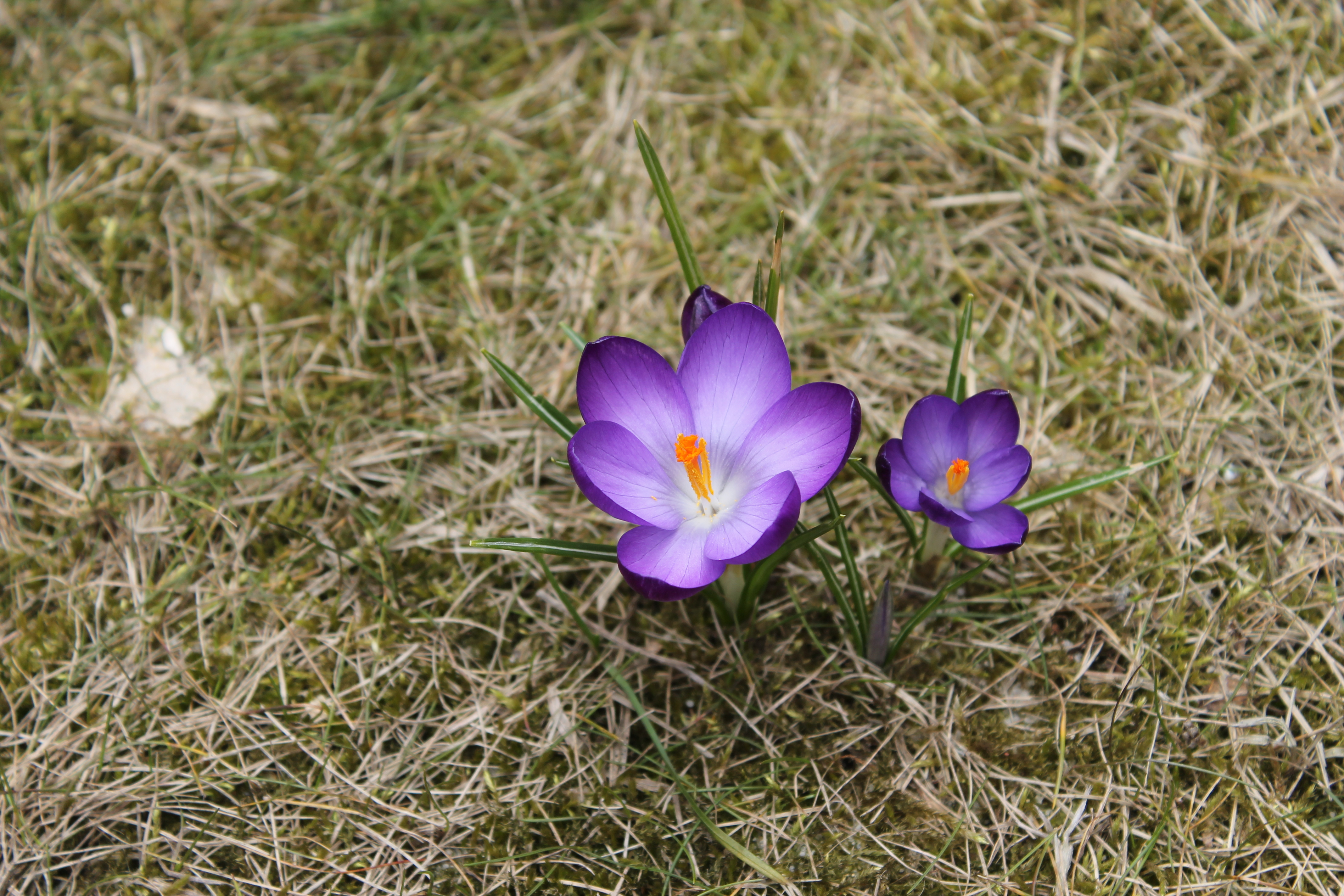 Crocus vernus (Spring Crocus), Wawel, Kraków, Poland